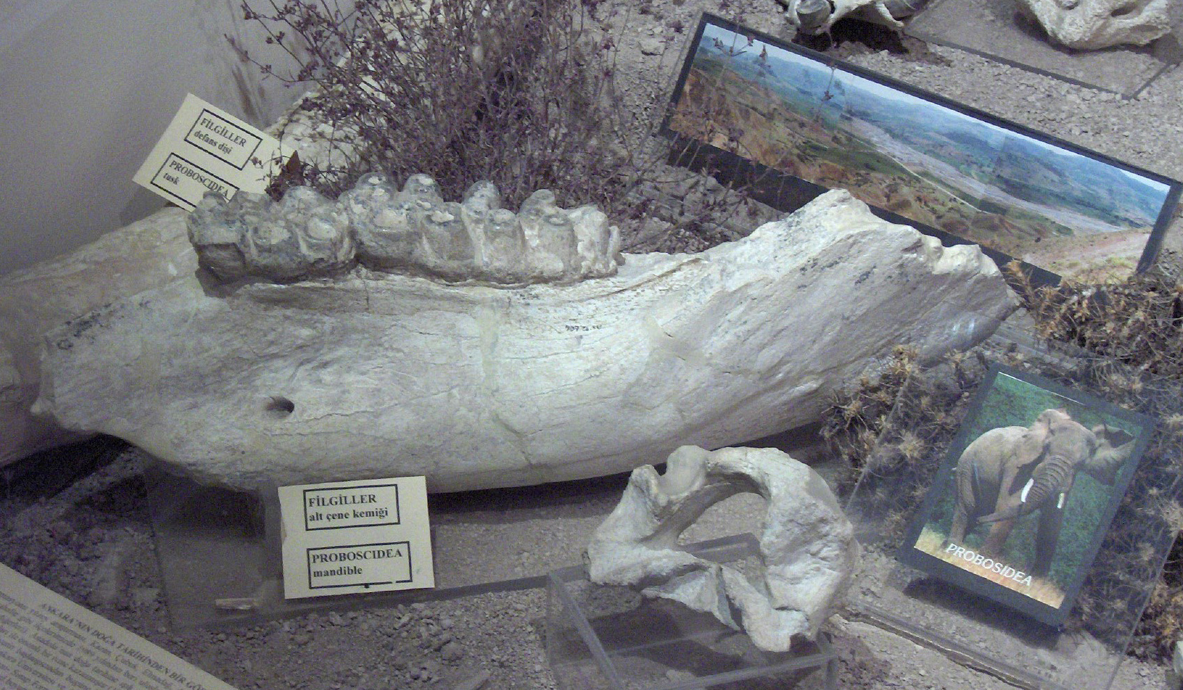 Mandible and atlas of an elephant; Museum of Anatolian Civilizations; Ankara, Turkey